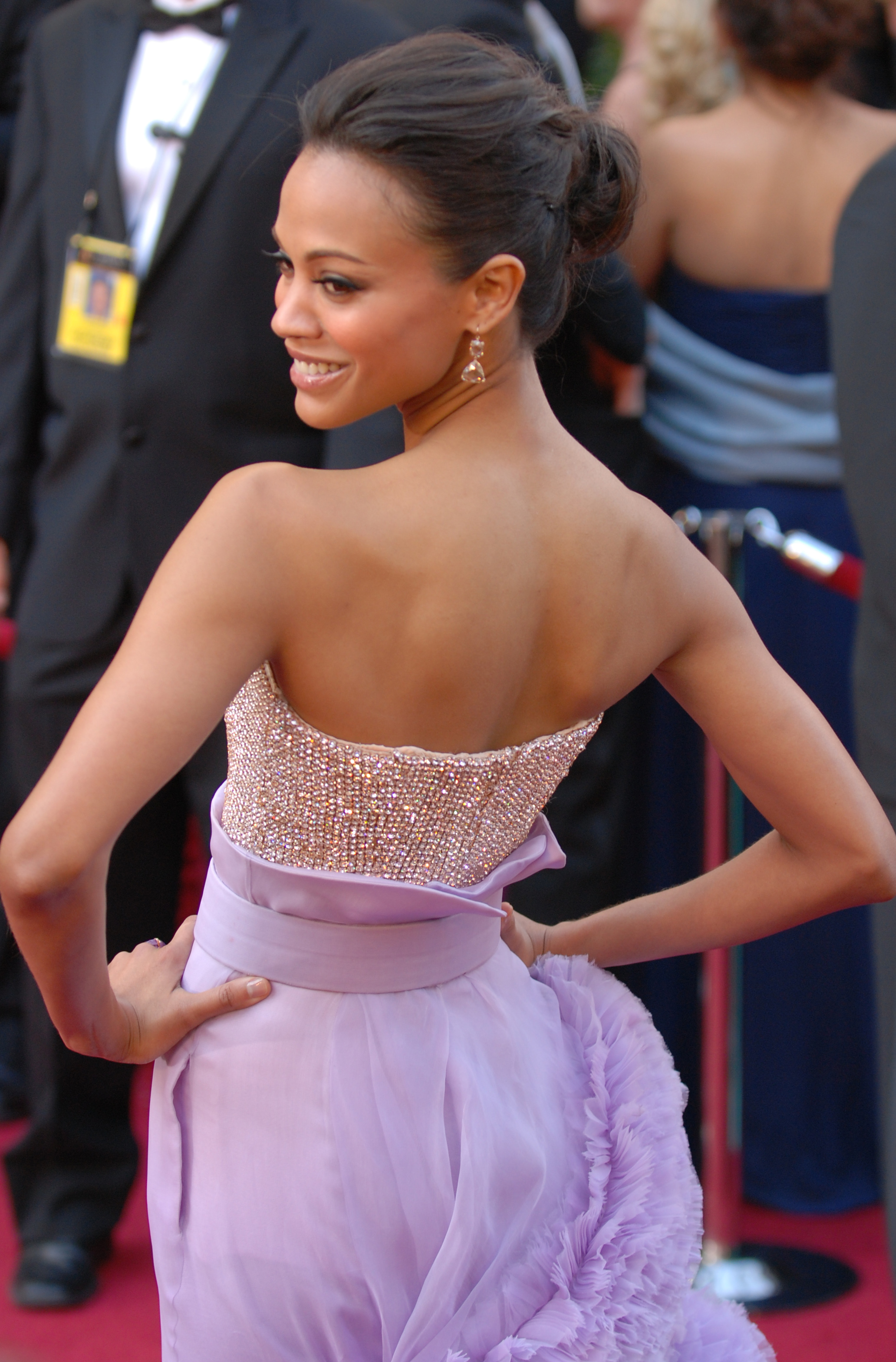 Zoe Saldana strikes a pose at the 82nd Academy Awards, March 7, in Hollywood, Calif.